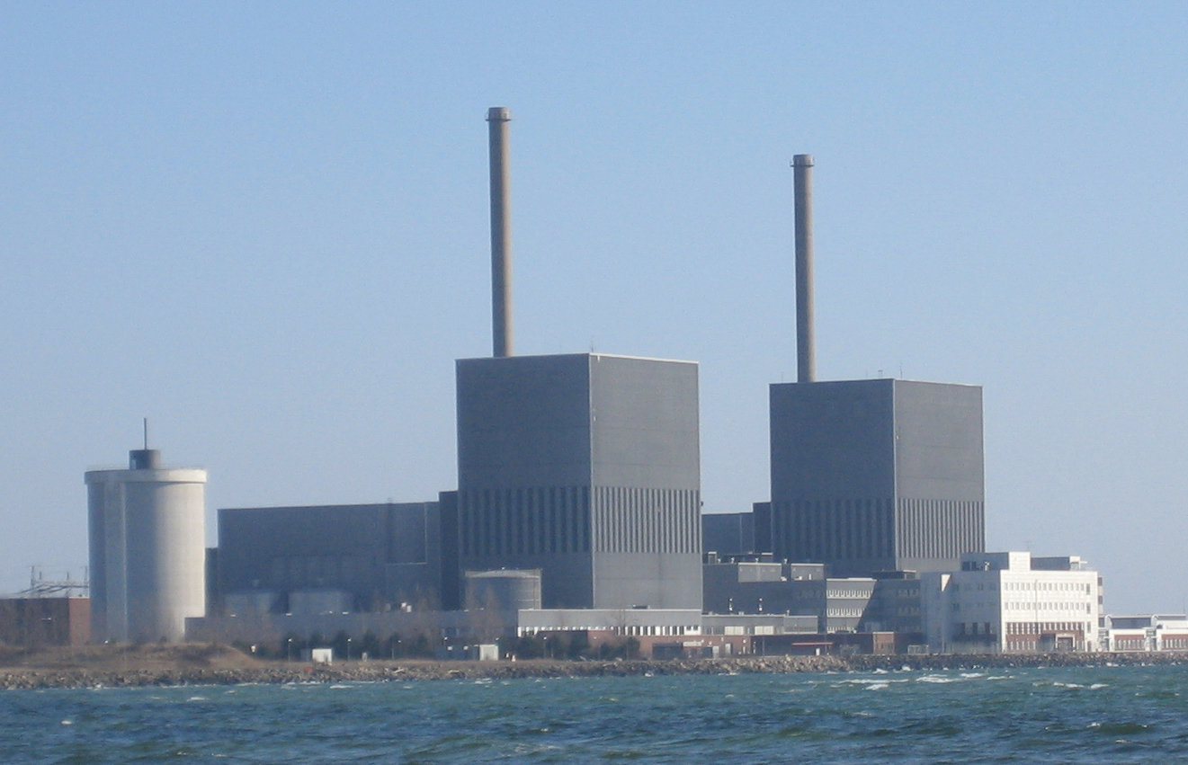 Barsebäck nuclear power plant in Skåne, Sweden